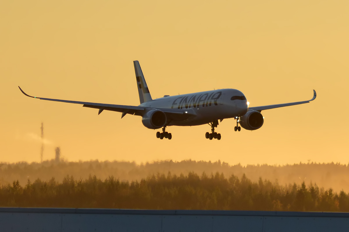 Finnair, OH-LWA, Airbus A350-941